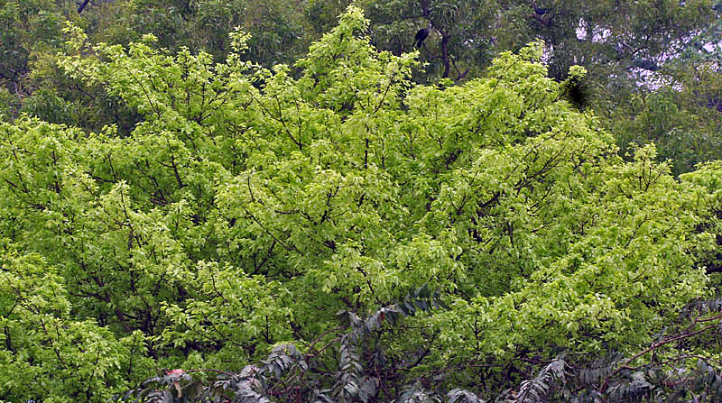 Pilkhan Ficus virens. Kolkata, West Bengal, India